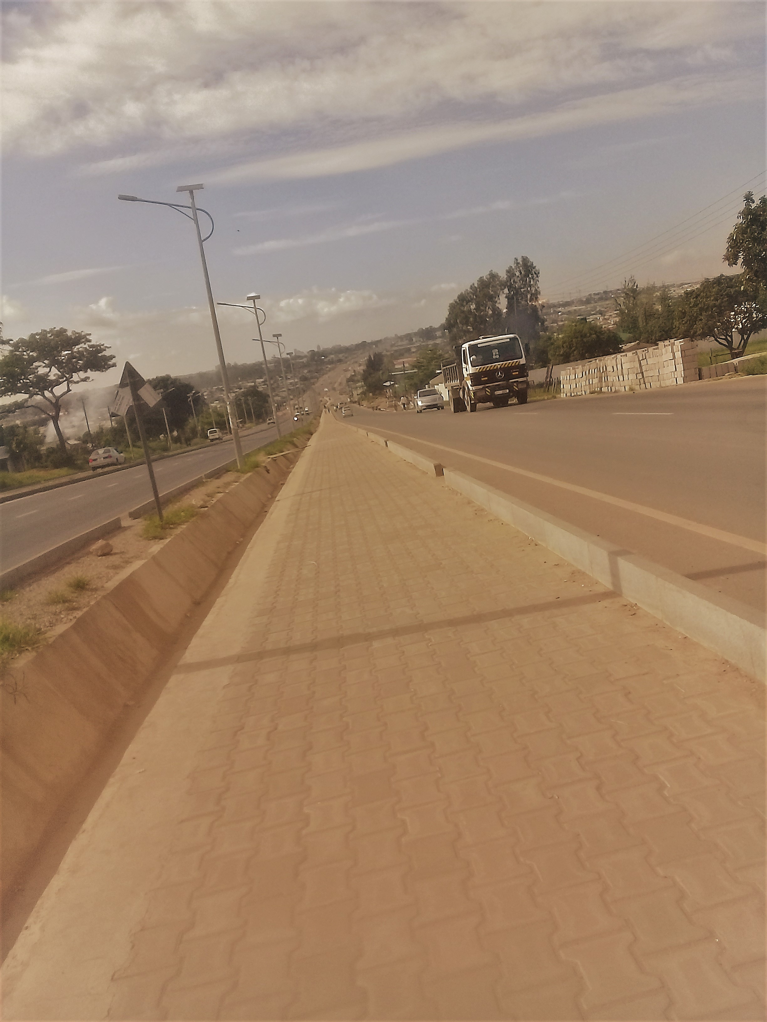 fresh air is precious and cool in great north road side walk This is an image with the theme "Africa on the Move or Transport" from: Zambia